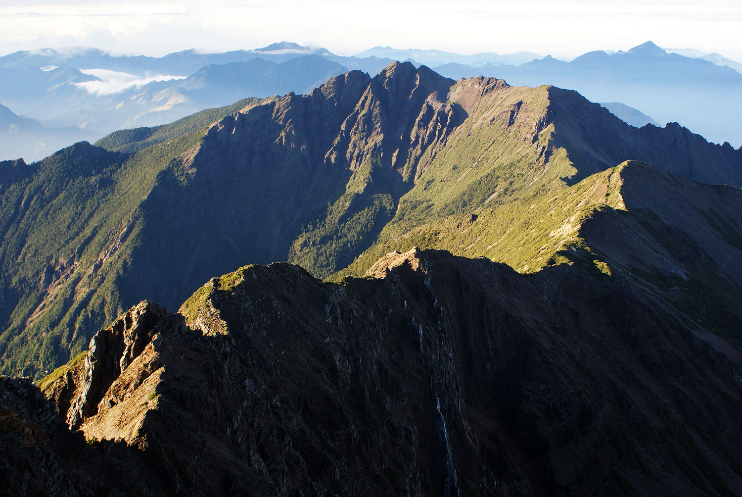 玉山南峰 Jade Mountain Southern Peak